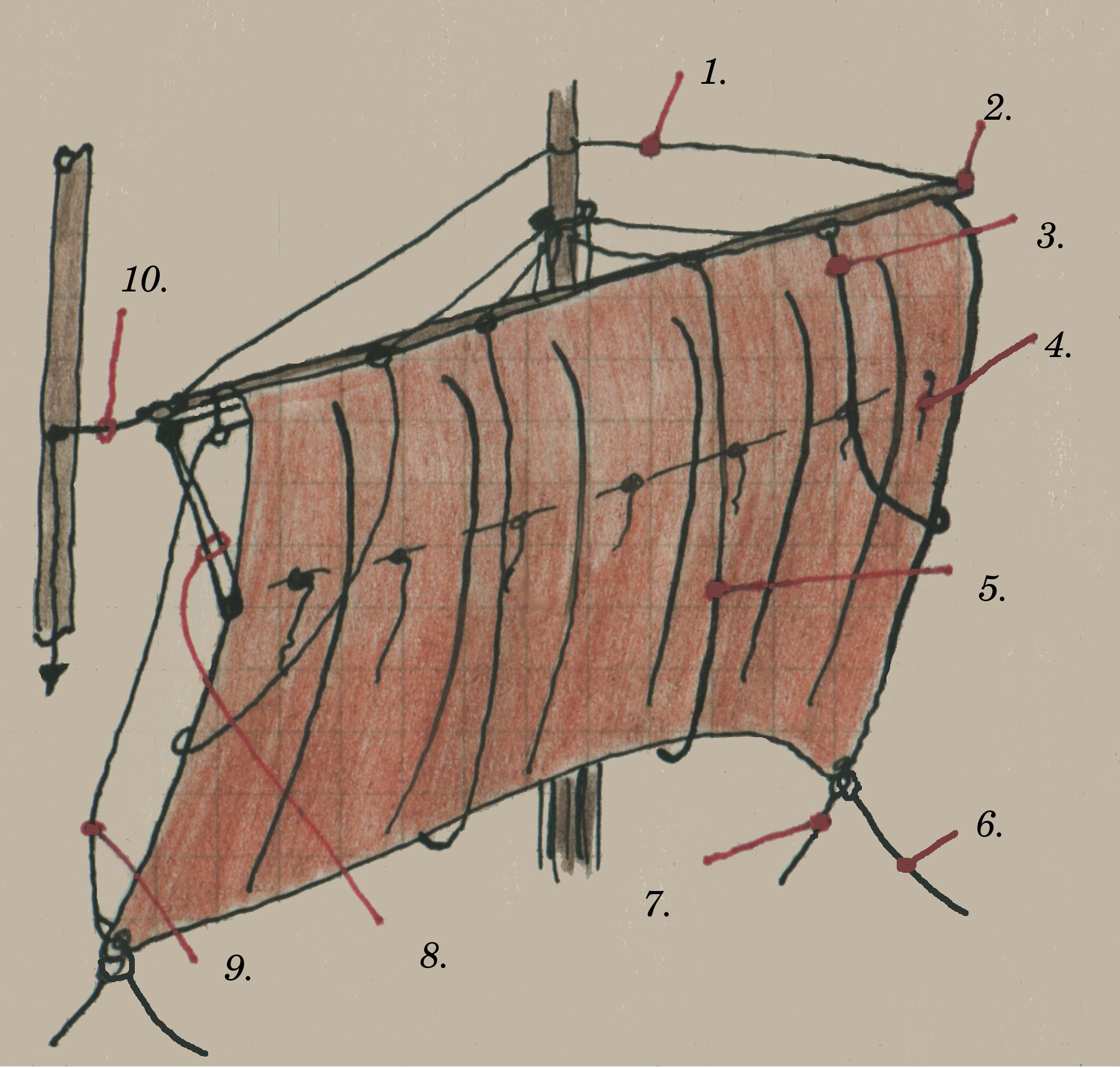 Drawing of a square sail, from my old school notebook.